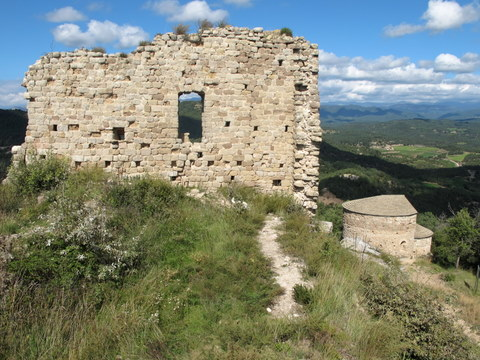 Castell de Lluçà - Catalunya